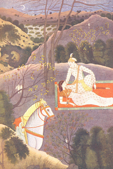 People of India